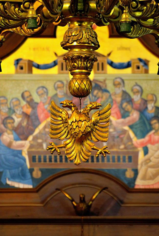 Eagle gilt wood, hand carved, of the wooden chandelier of the majestic Cathedral of the Albanians of Sicily in Piana degli Albanesi. Commissioned by Papàs Gjergji Schirò (1907-1992) in the 1960s, the two-headed eagle is the heraldic symbol of the Byzantine Empire, reminiscent of the membership "Arbëreshë" (Albanian of Italy) to the Christian faith of the Orthodox tradition and is the national symbol of the Albanians. Foto Giorgio Lucito